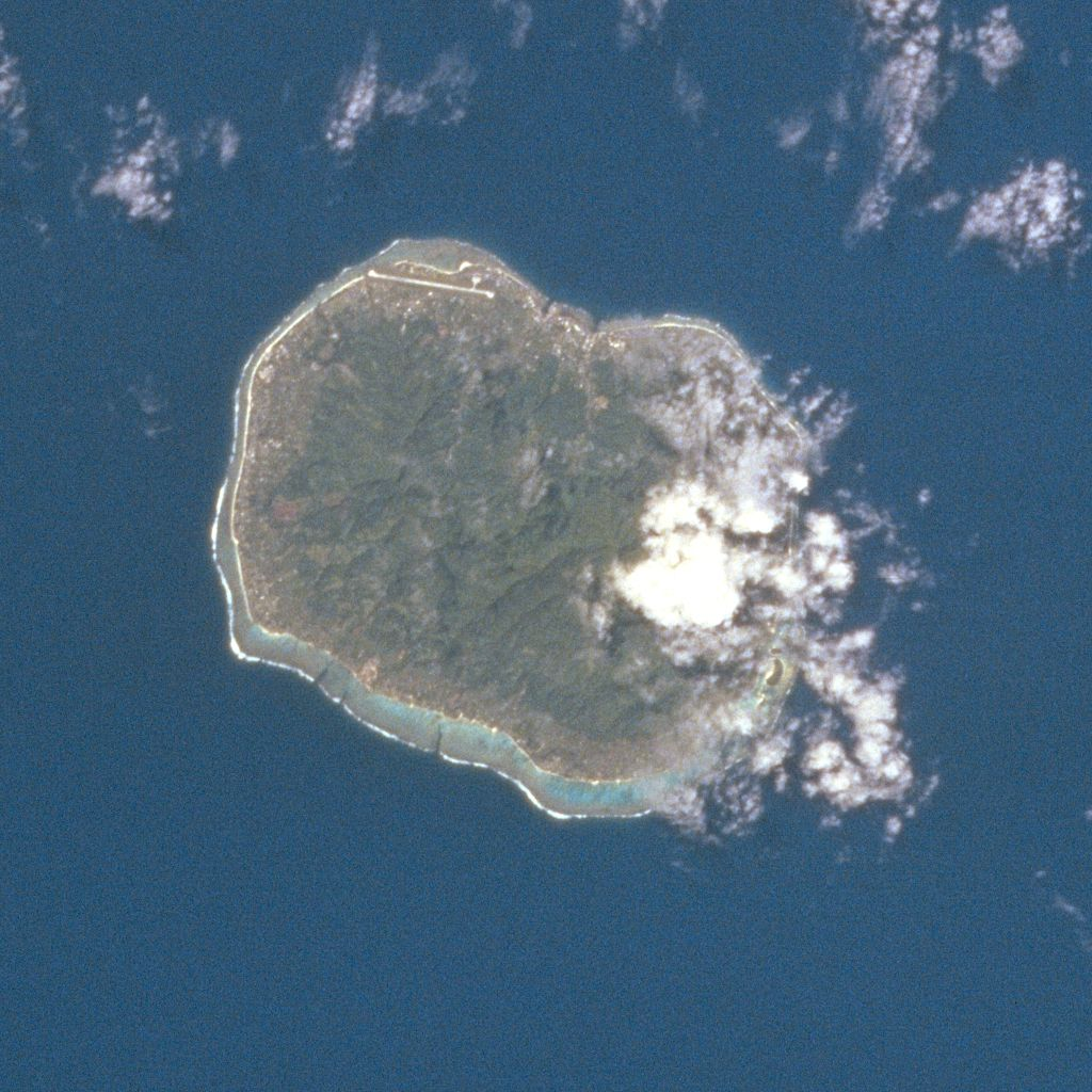 NASA astronaut image of Rarotonga Island (Cook Islands) in the Pacific Ocean